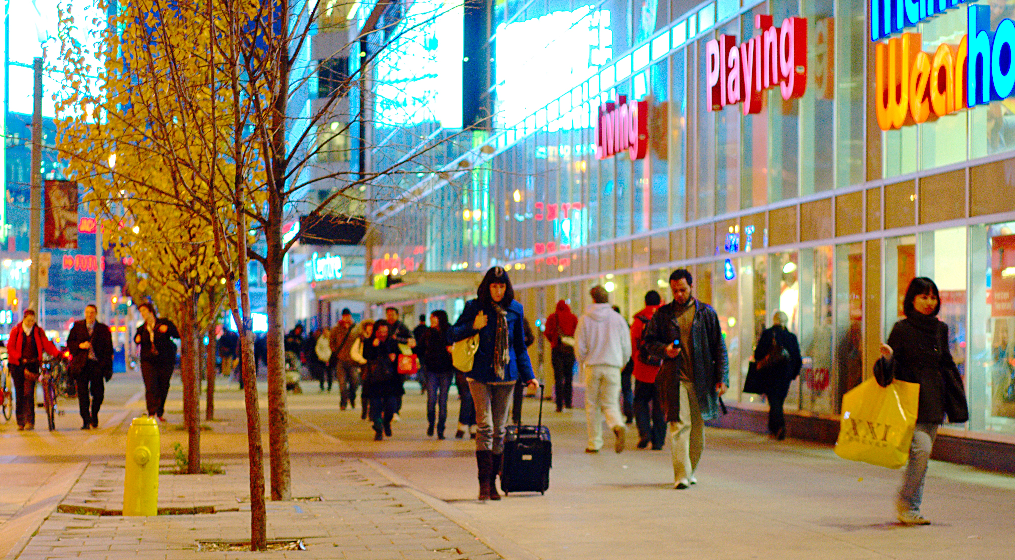 Pedestrians on the south sidewalk of Dundas Street, near Yonge Street. Seen are the Canadian Tire and Marks Work Wearhouse stores in the north end expansion of the Toronto Eaton Centre. The following is the author's description of the photograph quoted directly from the photograph's Flickr page. "Toronto. replaced with a slightly different crop on Dec. 9, 2009. "